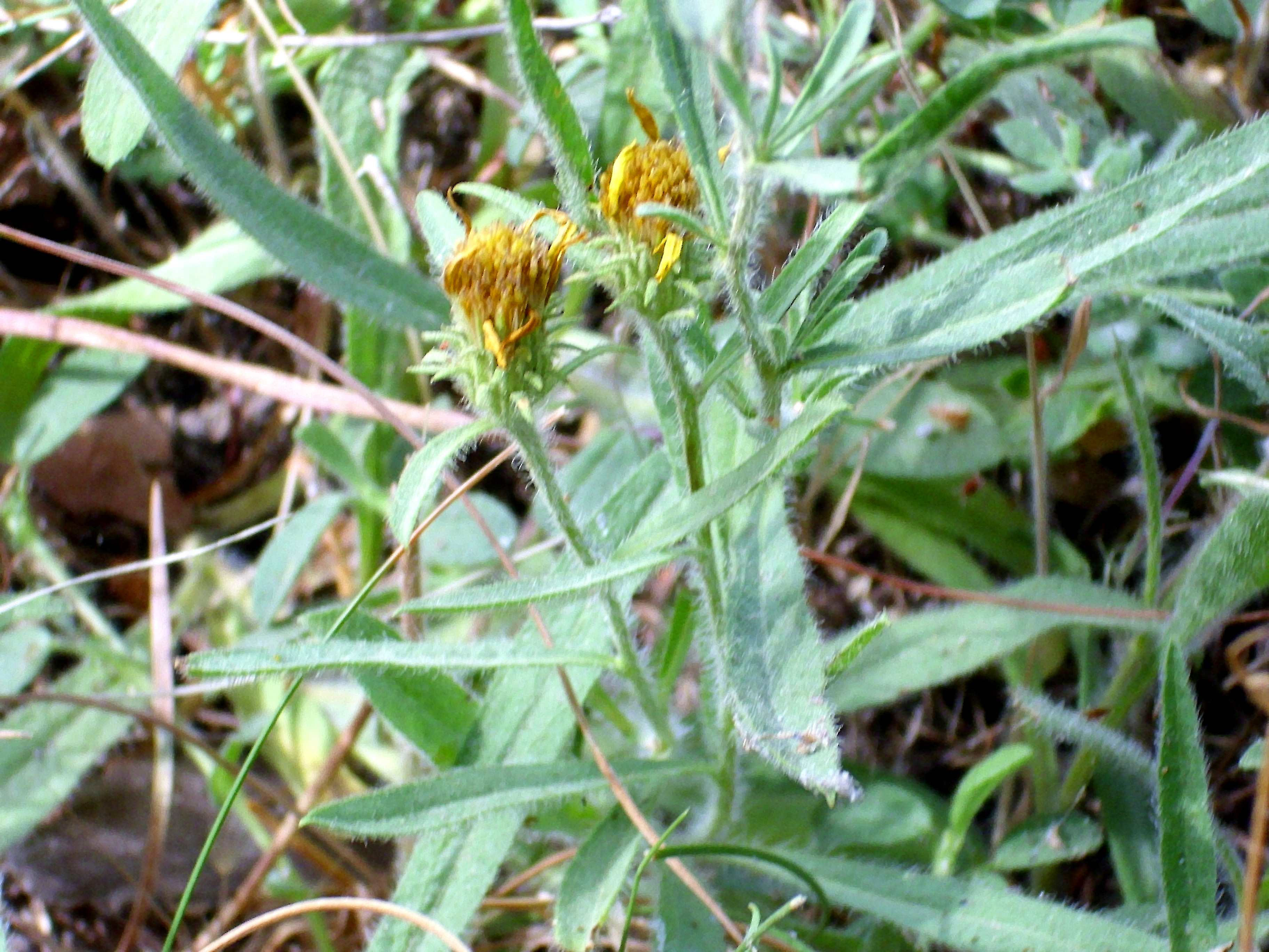 Inula montana, fruits Sierra Nevada, Spain